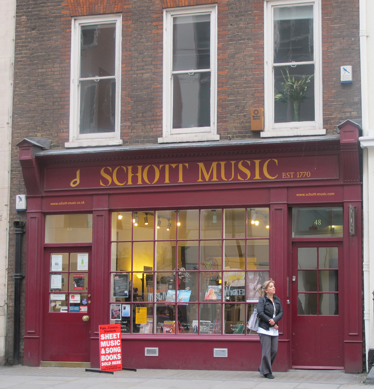 The bookstore of Schott Music in London, Great Marlborough Street